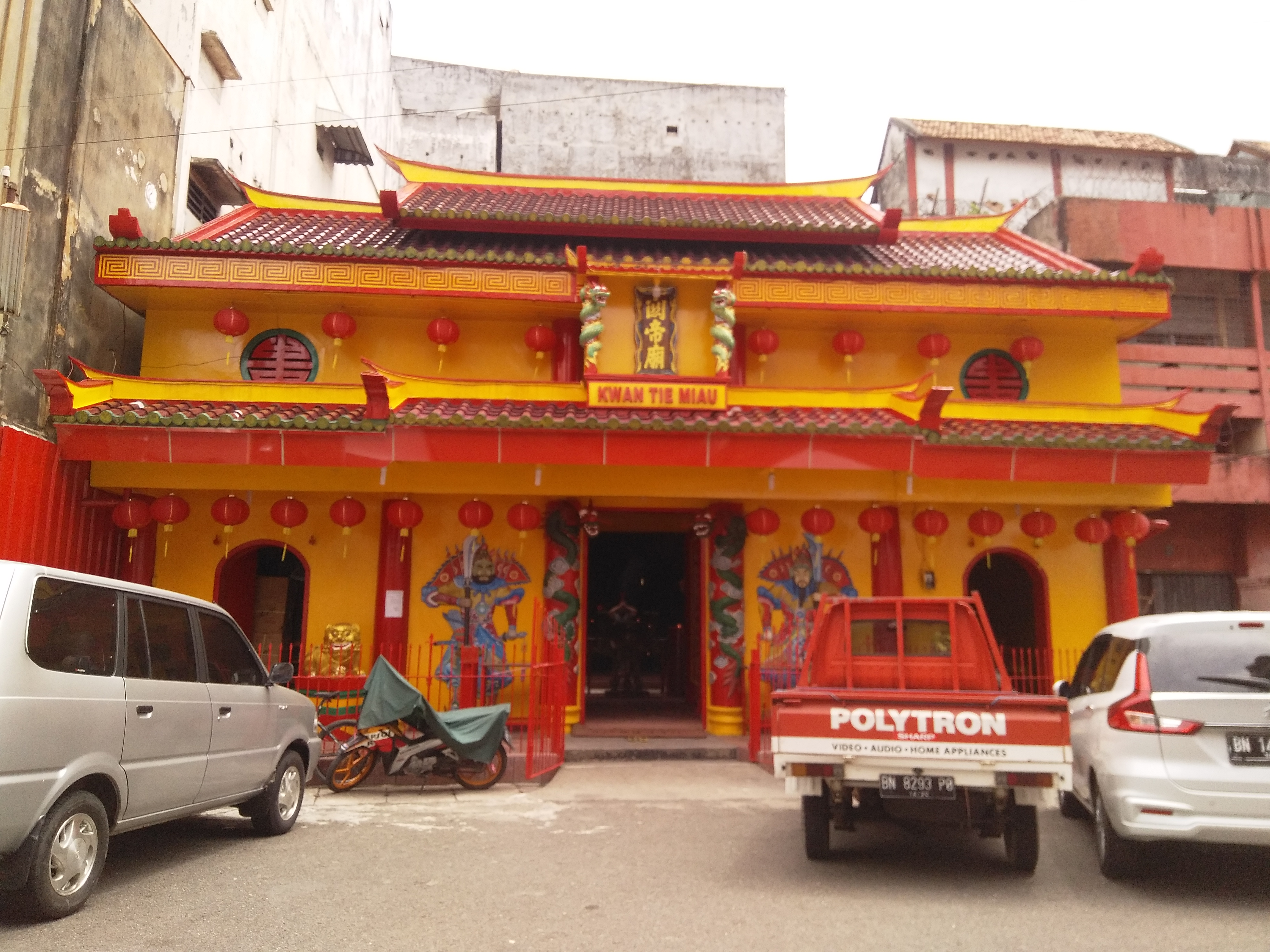 Guandi Temple, dedicated to Guan Yu. This temple is established by early Chinese settlers in Bangka Island, Indonesia.